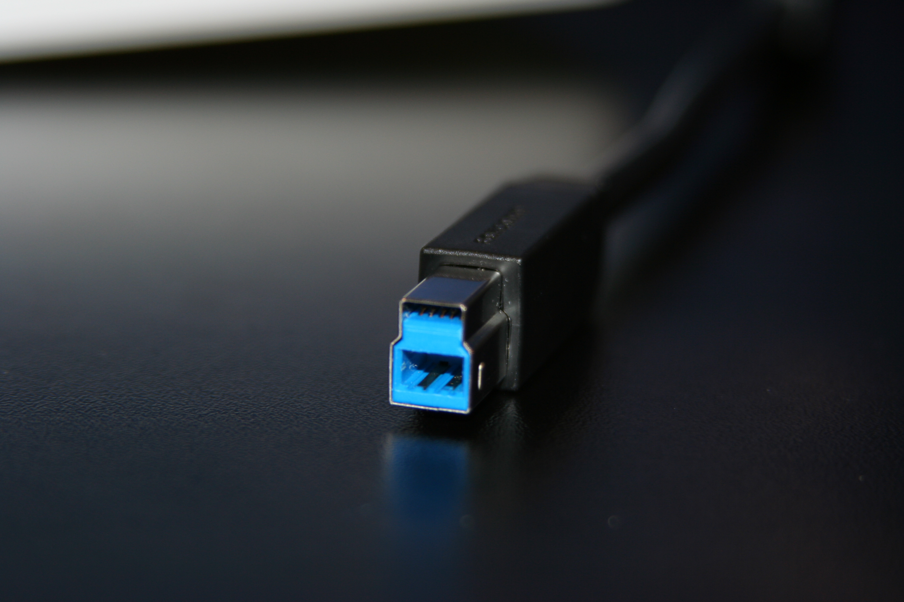 USB SuperSpeed B Male Connector, on exhibit at CES 2009